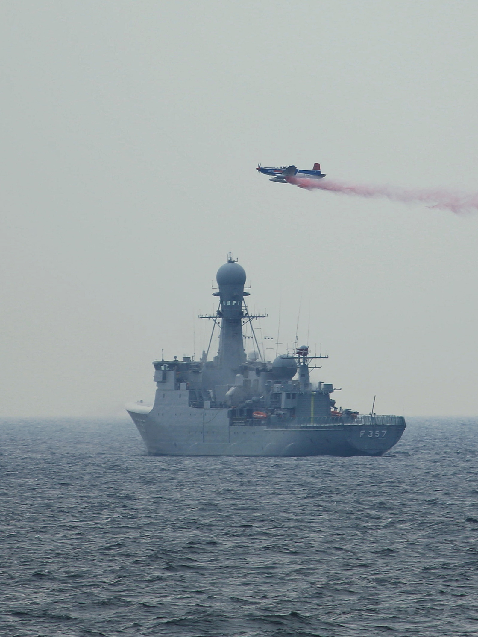 A Pilatus PC-9 aircraft simulates an airborne chemical attack against the Royal Danish Navy ocean patrol vessel HDMS Thetis (F357) in the Baltic Sea June 13, 2013, as part of Baltic Operations (BALTOPS) 2013. BALTOPS is a joint and combined exercise designed to enhance multinational maritime capabilities and interoperability between the U.S. and European nations in the Baltic region.